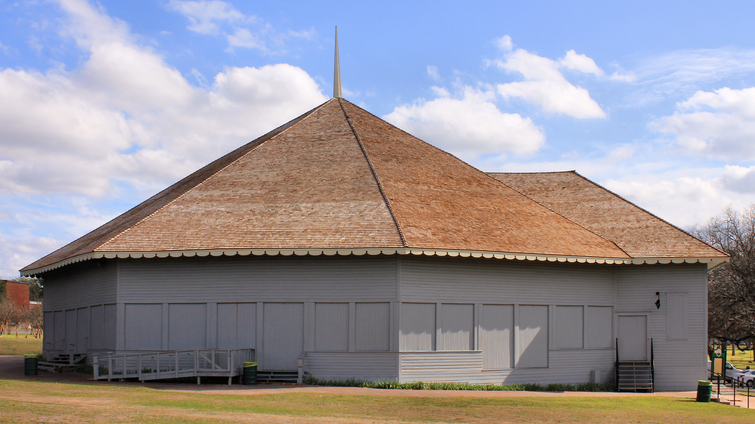 The Waxahachie Chautauqua Building, Waxahachie, Texas, United States